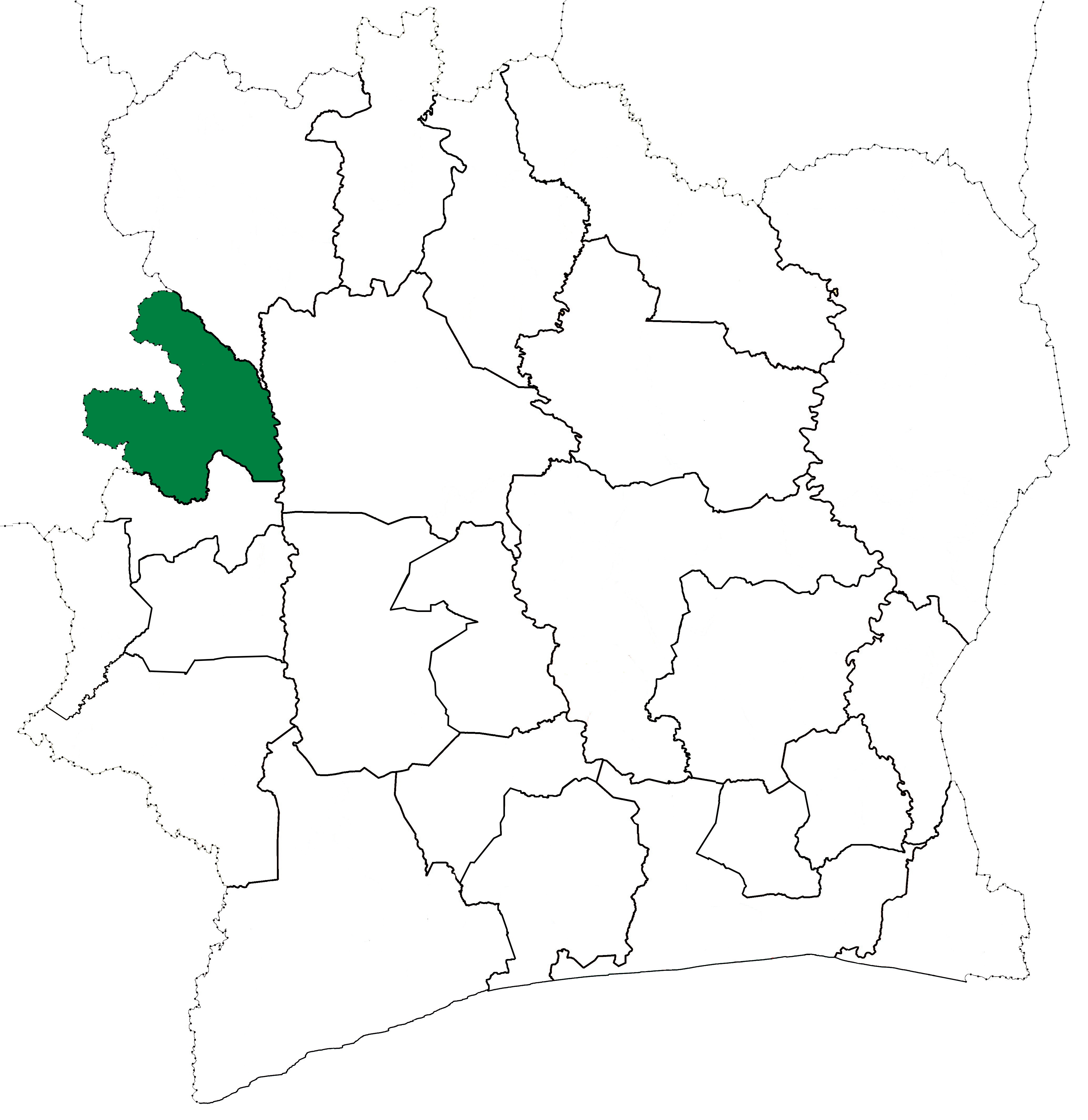 Locator map for Touba Department in Côte d'Ivoire when the 24 new departments were created in 1969. Touba Department kept these boundaries until 2008, but other departments began to be divided in 1974.